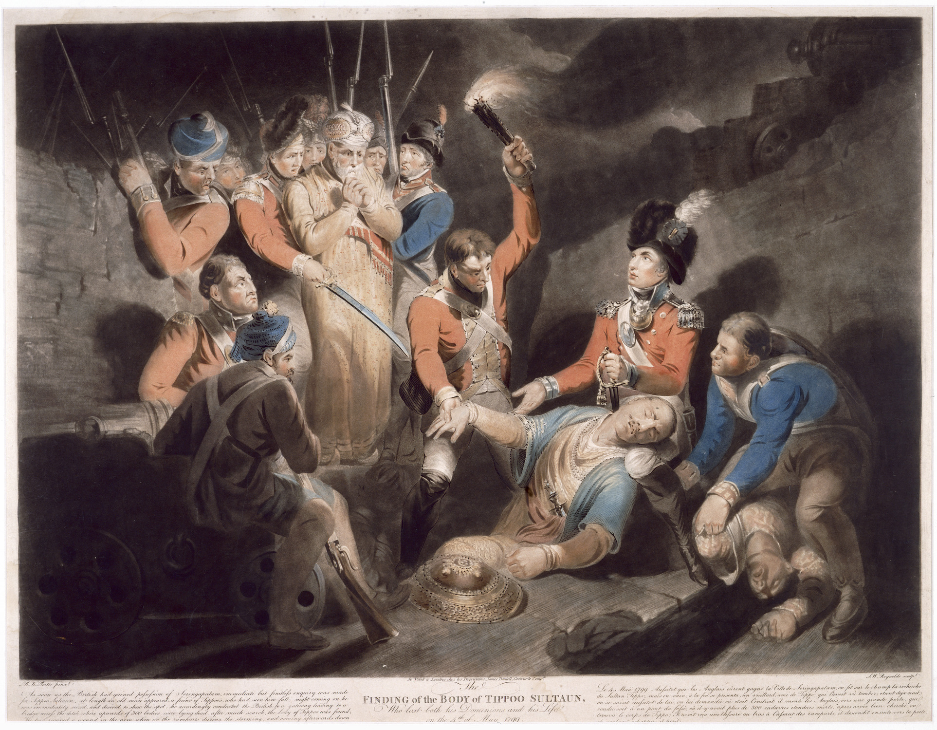 Finding the body of Tipu 'Finding the Body Of Tippoo Sultan'. Coloured engraving.